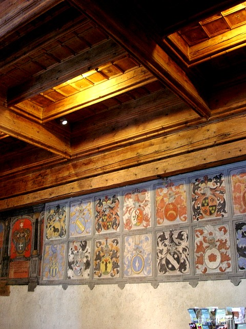 Chillon